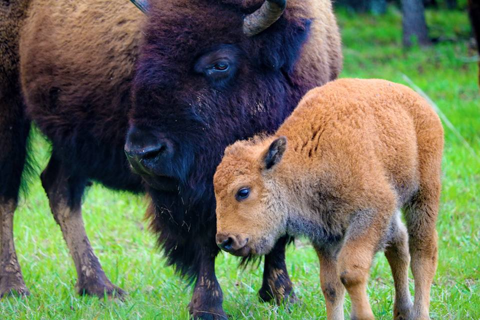 The Woolaroc Wildlife Preserve is 3,700 acres and home to over 30 different types of wildlife, including descendants from the original bison herd.